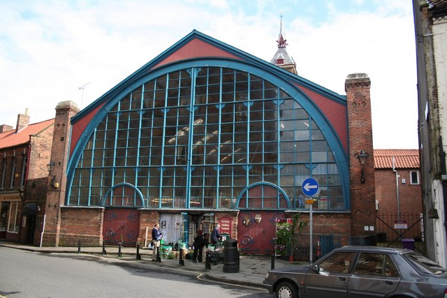 Old Market Hall By Rogers & Marsden in 1866, described by Pevsner as 'Byzantine Gothic'